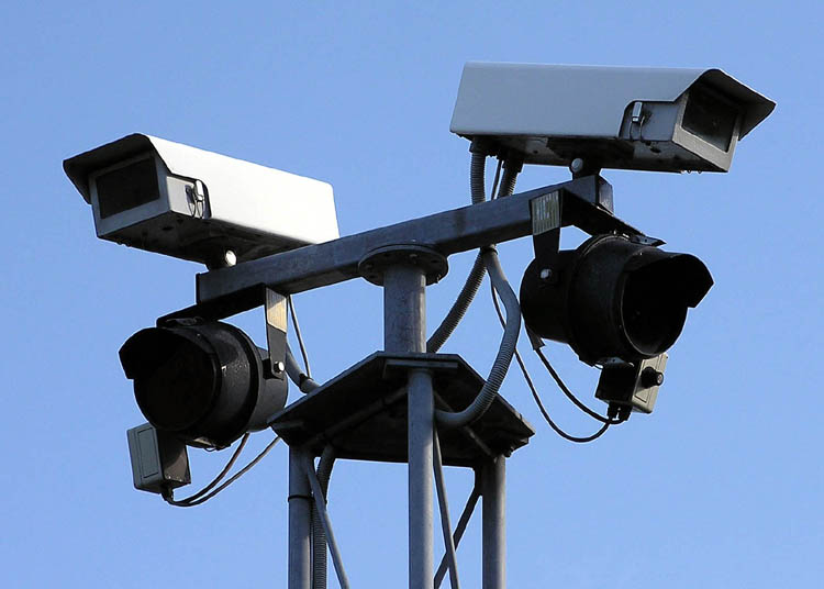 Two fixed-view security cameras, and lights, at an industrial park at Almondsbury, Bristol, England. Taken by Adrian Pingstone in September 2004 and released to the public domain.